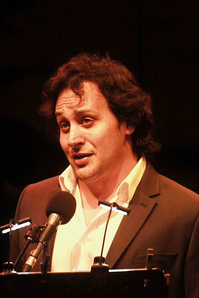 Former Argentine rugby union player Omar Hasan on the 8th of august of 2013 performing with Café Tango and the Chamber Orchestra of Toulouse at Raymond IV gardens, in Toulouse